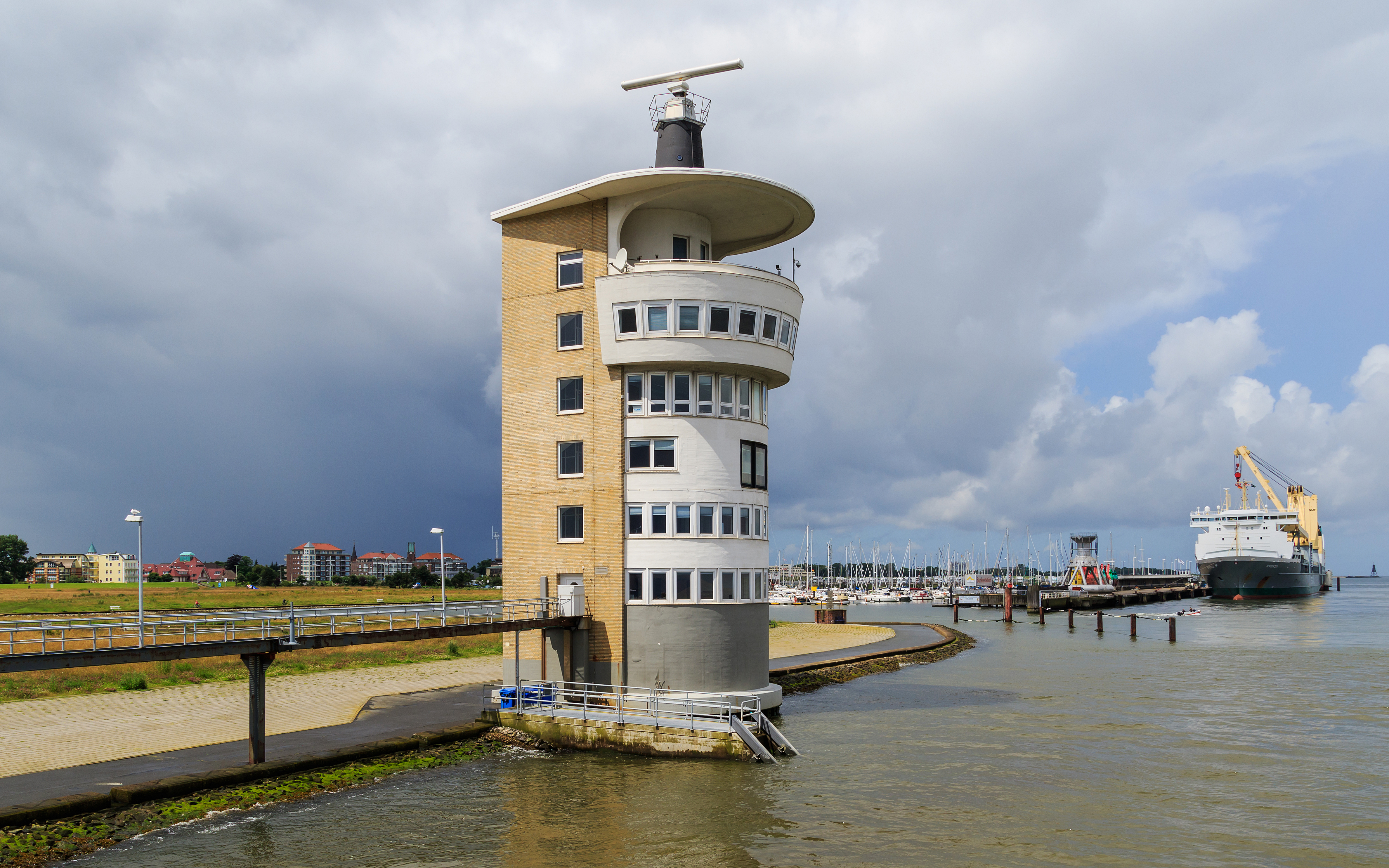 Sea port and its surroundings in Cuxhaven, Germany